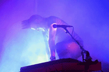 Shaun in Combichrist